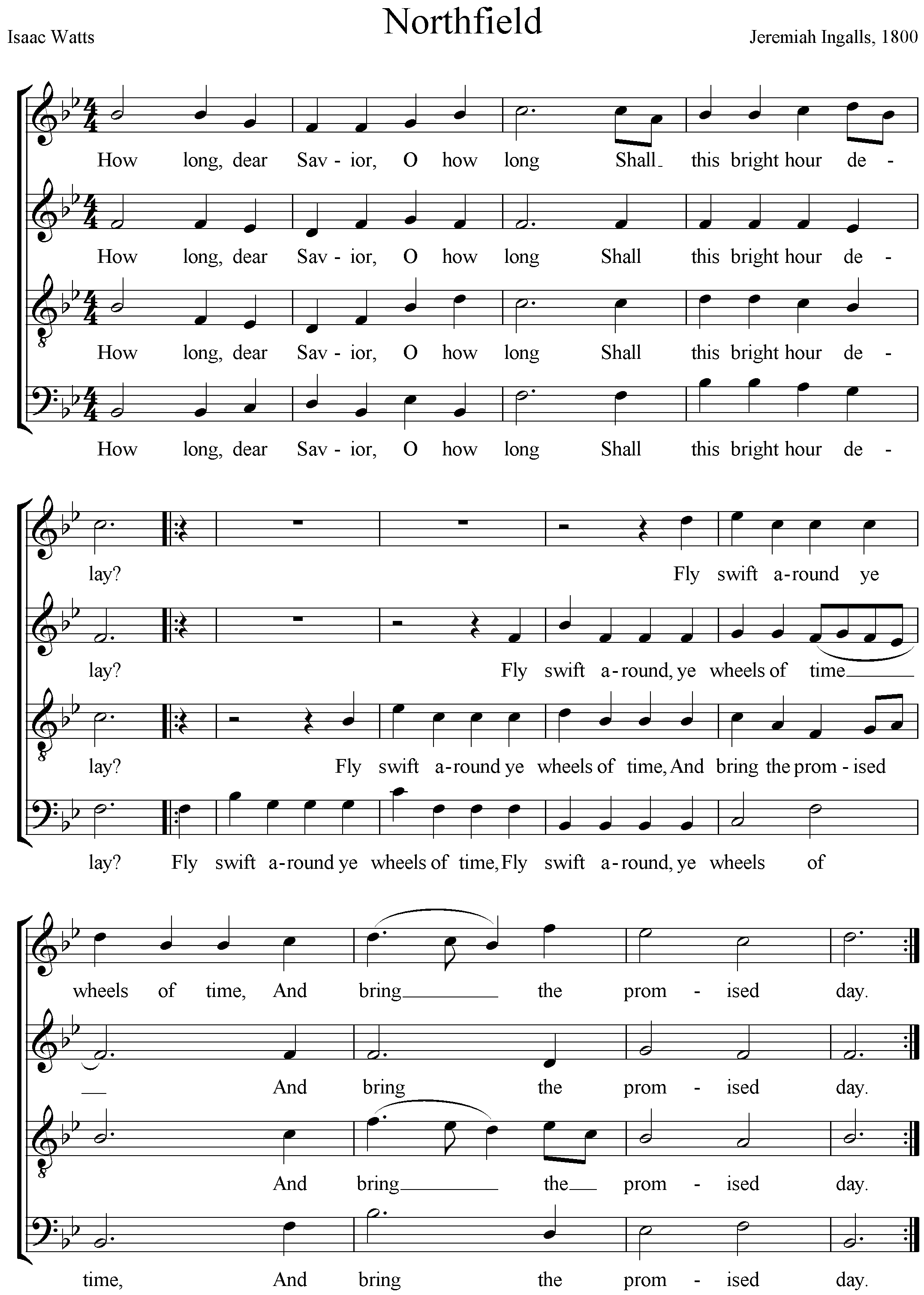 Music notation: "Northfield" by Jeremiah Ingalls For an image file: Image file created with Sibelius software by Opus33. This music is in the public domain. The image is not copyrighted, and it is hereby released by Opus33 into the public domain.